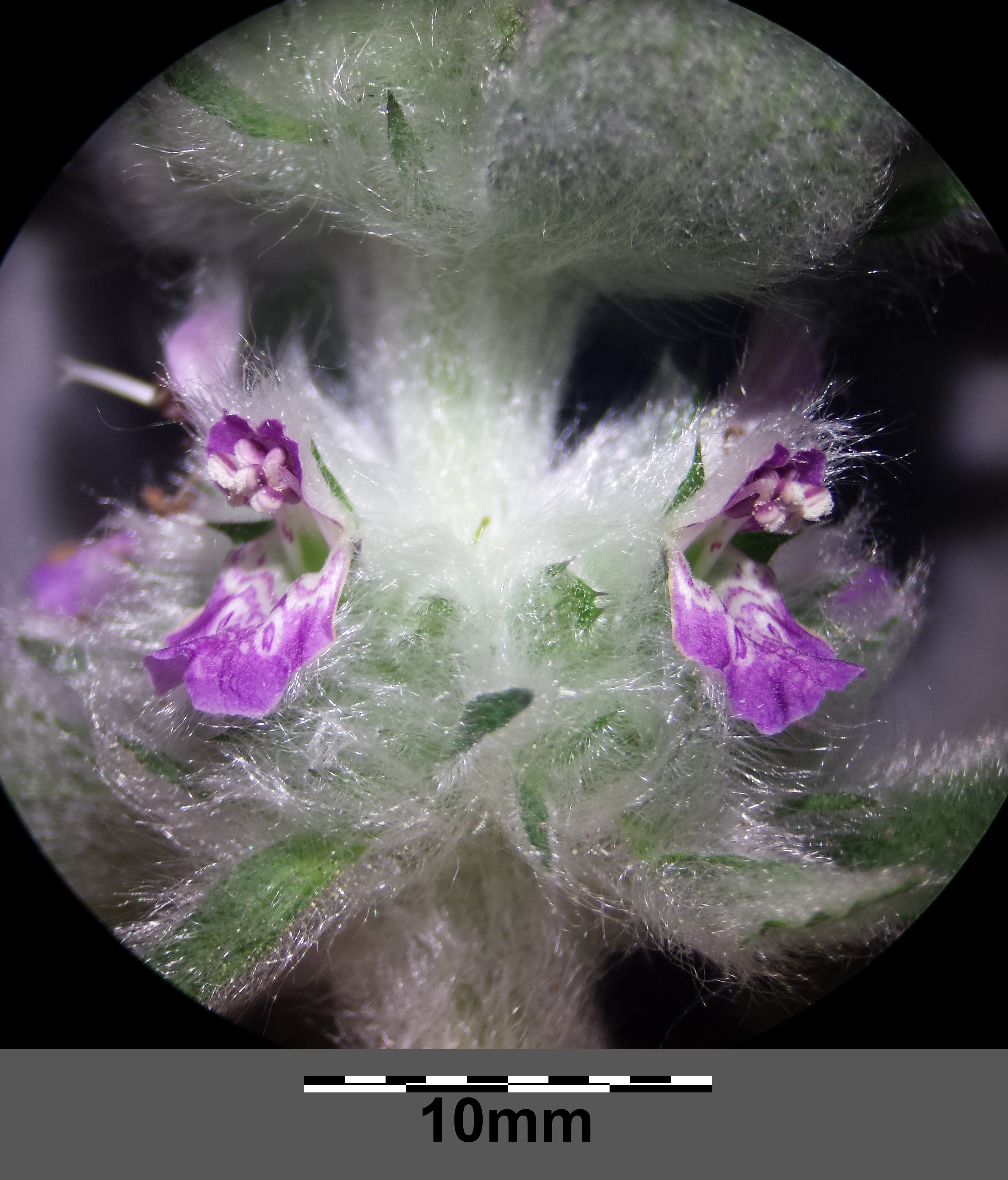 Verticillaster Taxonym: Stachys germanica (subsp. germanica) ss Fischer et al. EfÖLS 2008 ISBN 978-3-85474-187-9 Location: Waldberg next to Niederkreuzstetten, district Mistelbach, Lower Austria - ca. 250 m a.s.l. Habitat: shrubbery